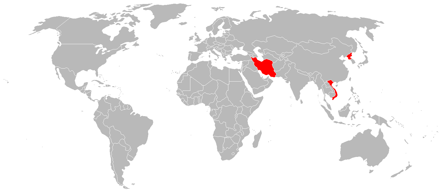 World map of operators of the Yugo class submarine Description World map of Yugo class submarine operators All rights released World map of Yugo class submarine operators